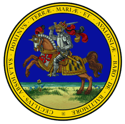 Seal of Maryland